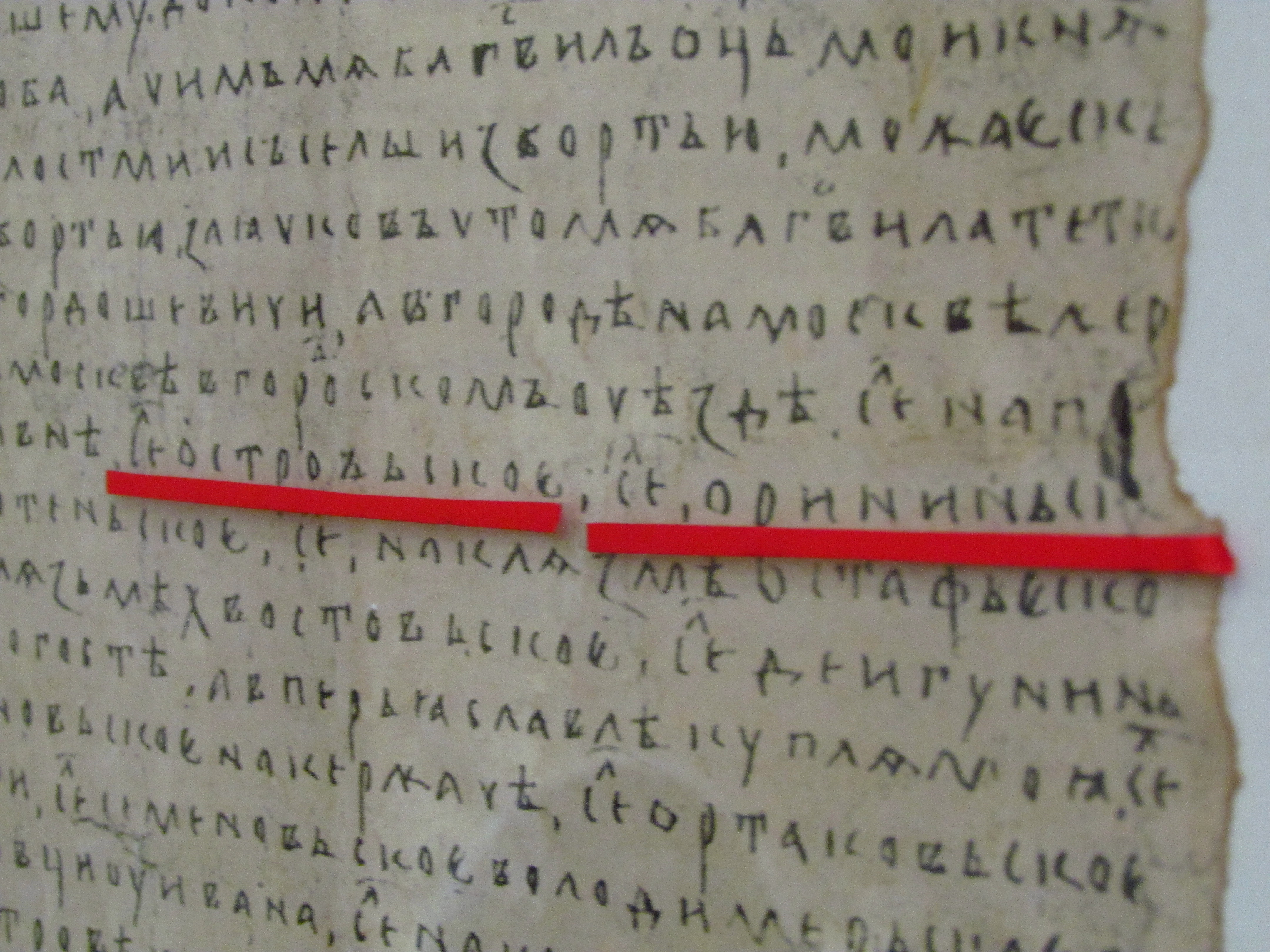 Exposition in Leniskiy District Historical and Cultural Center